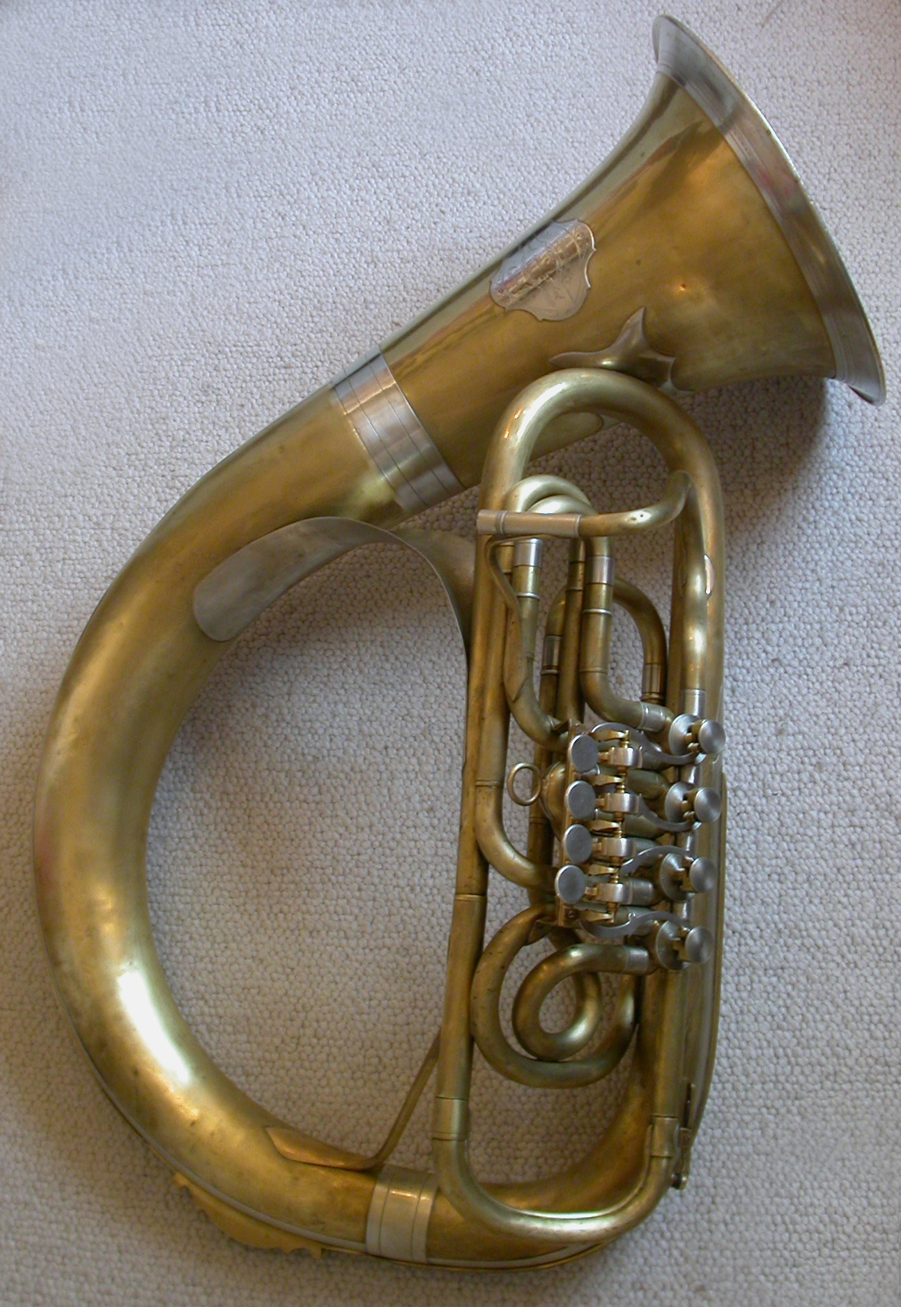 This is an old Helikon instrument manufactured in Graz,Styria,Austria. The picture was taken by myself, Matthias Bramboeck on Dec.18th 2006 I own this instrument